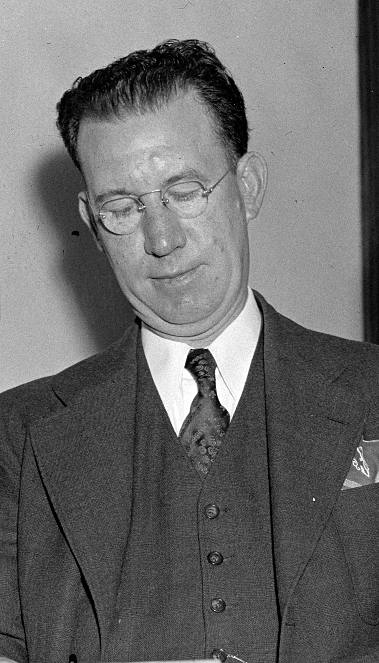 Frank Joseph Gerard Dorsey, US Representative from Pennsylvania